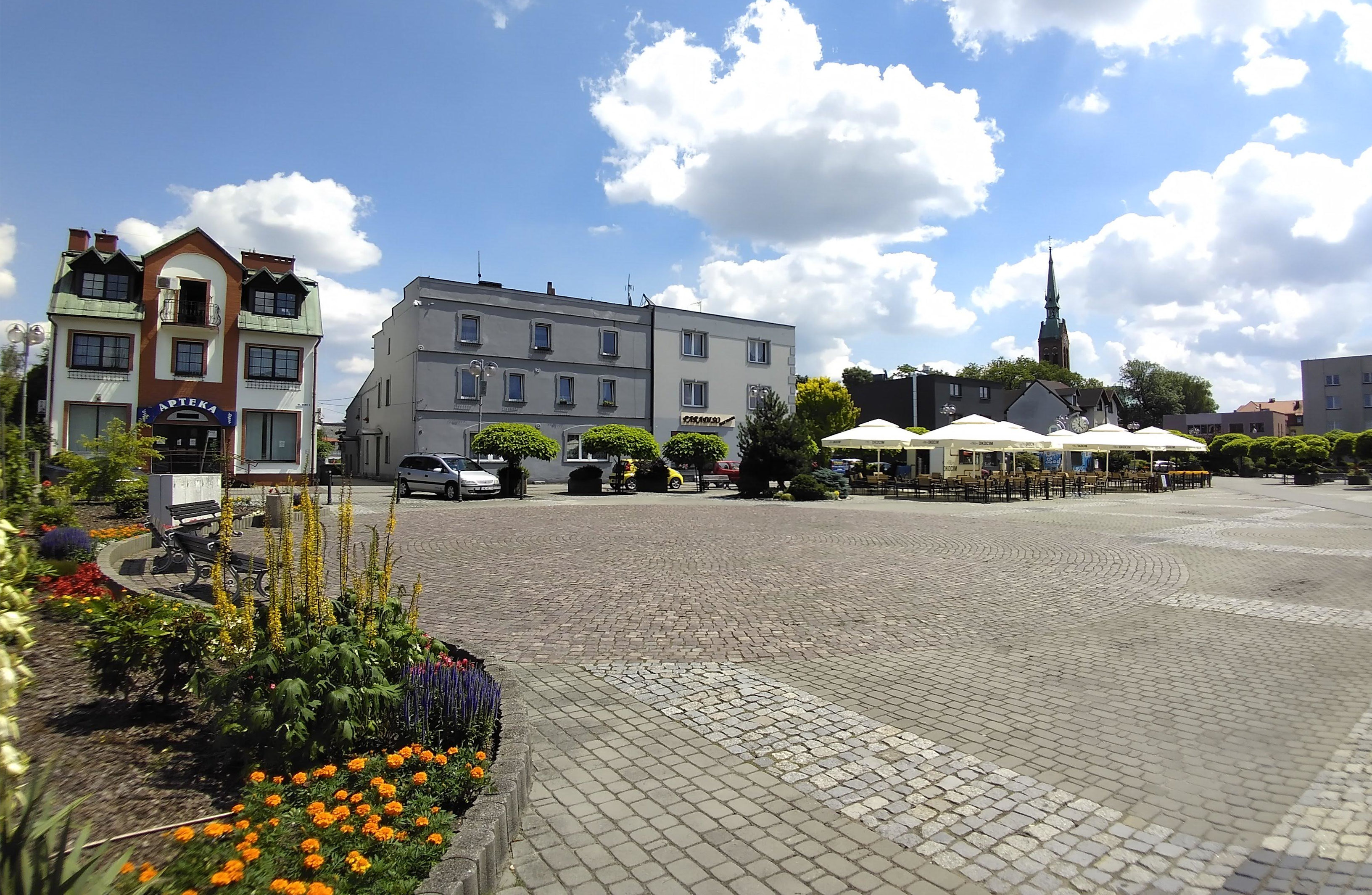 Main square of Rydułtowy, Upper Silesia, Poland